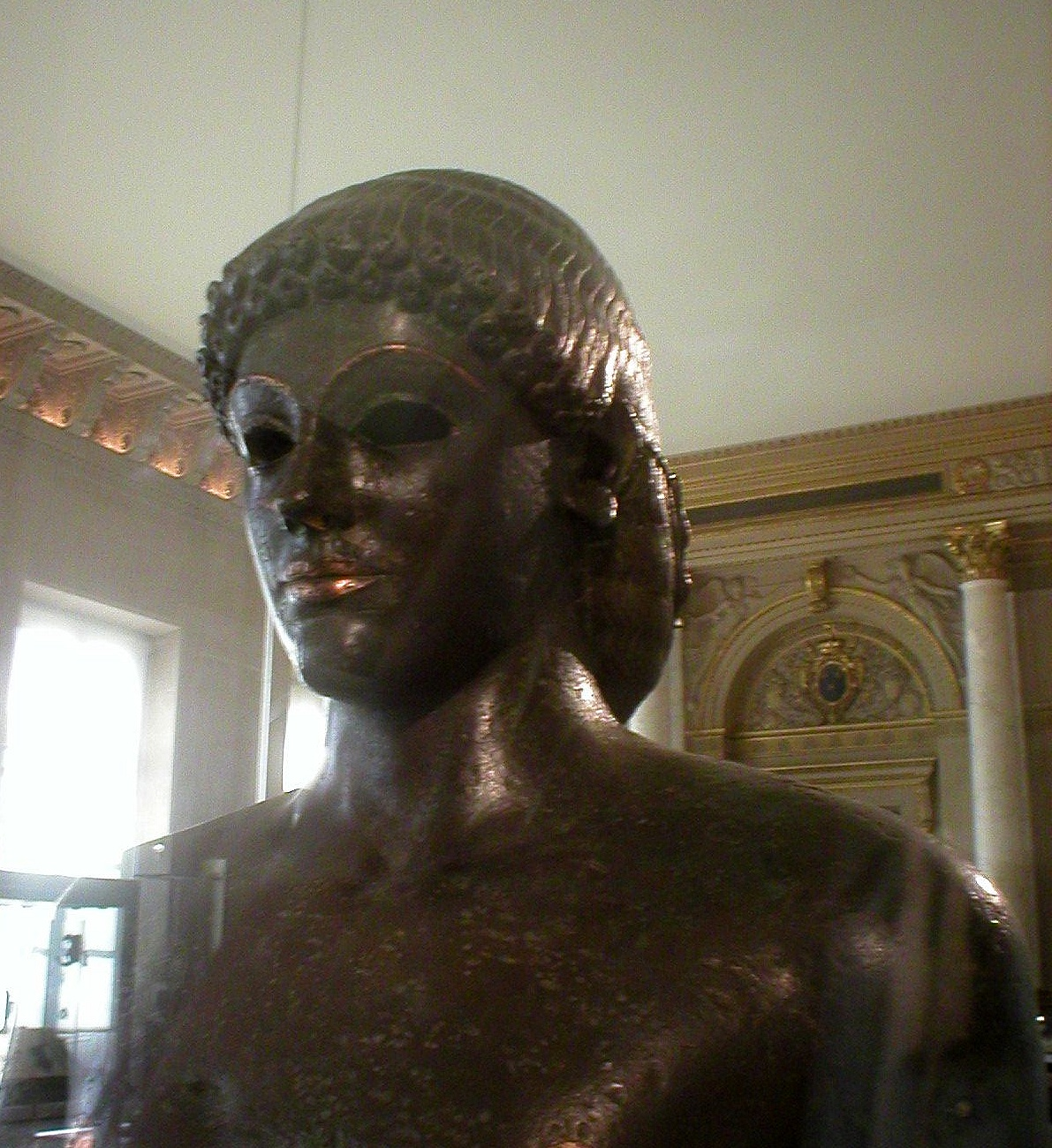 upper part